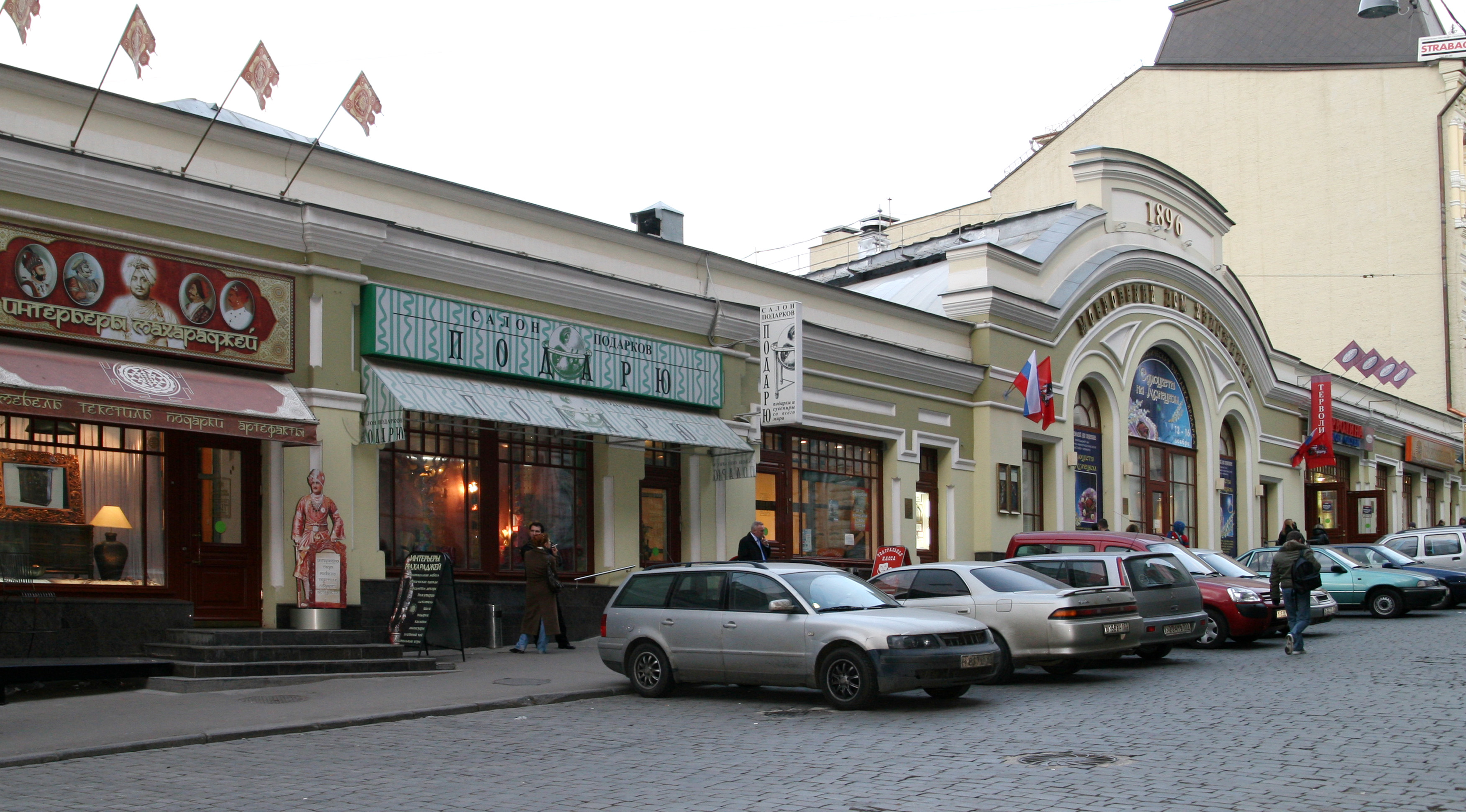 Moscow, Kuznetsky Most Street 11